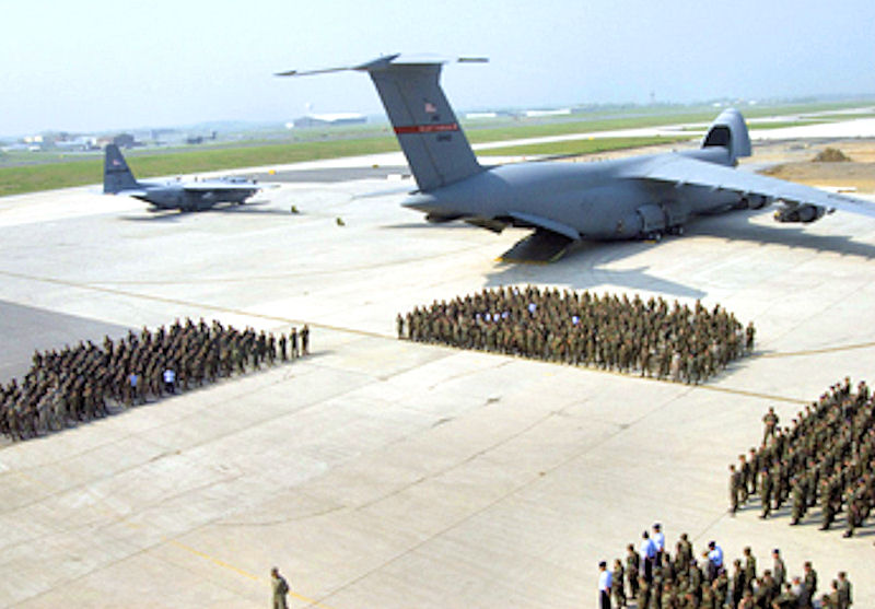 167th Airlift Wing - C-130 and C-5 2003